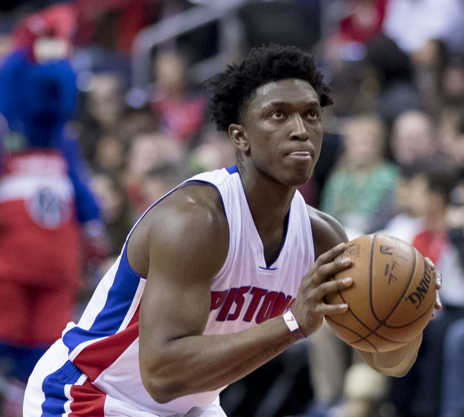 Pistons at Wizards 12/16/16